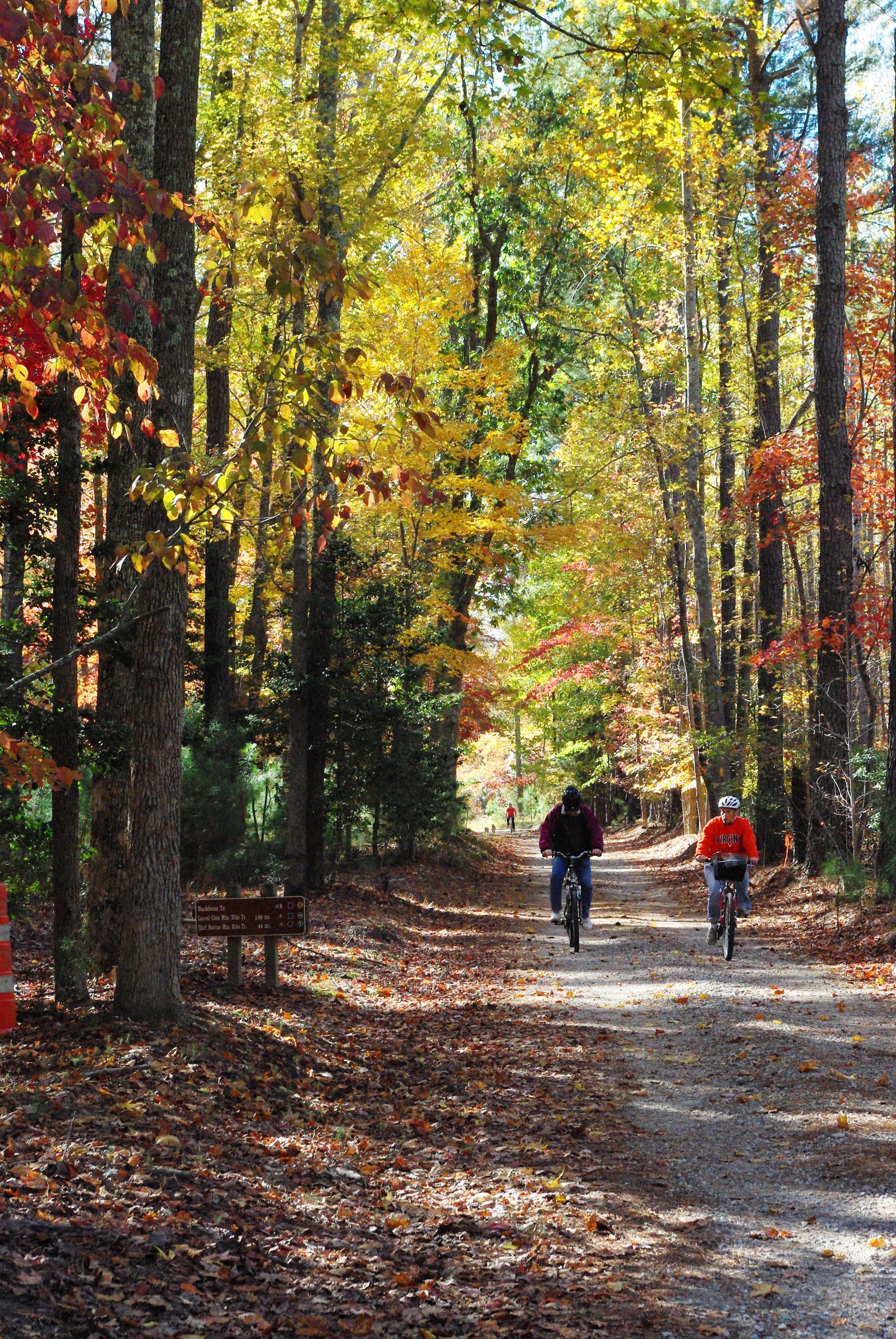 A couple enjoying the main trail. Courtesy of John Gresham.